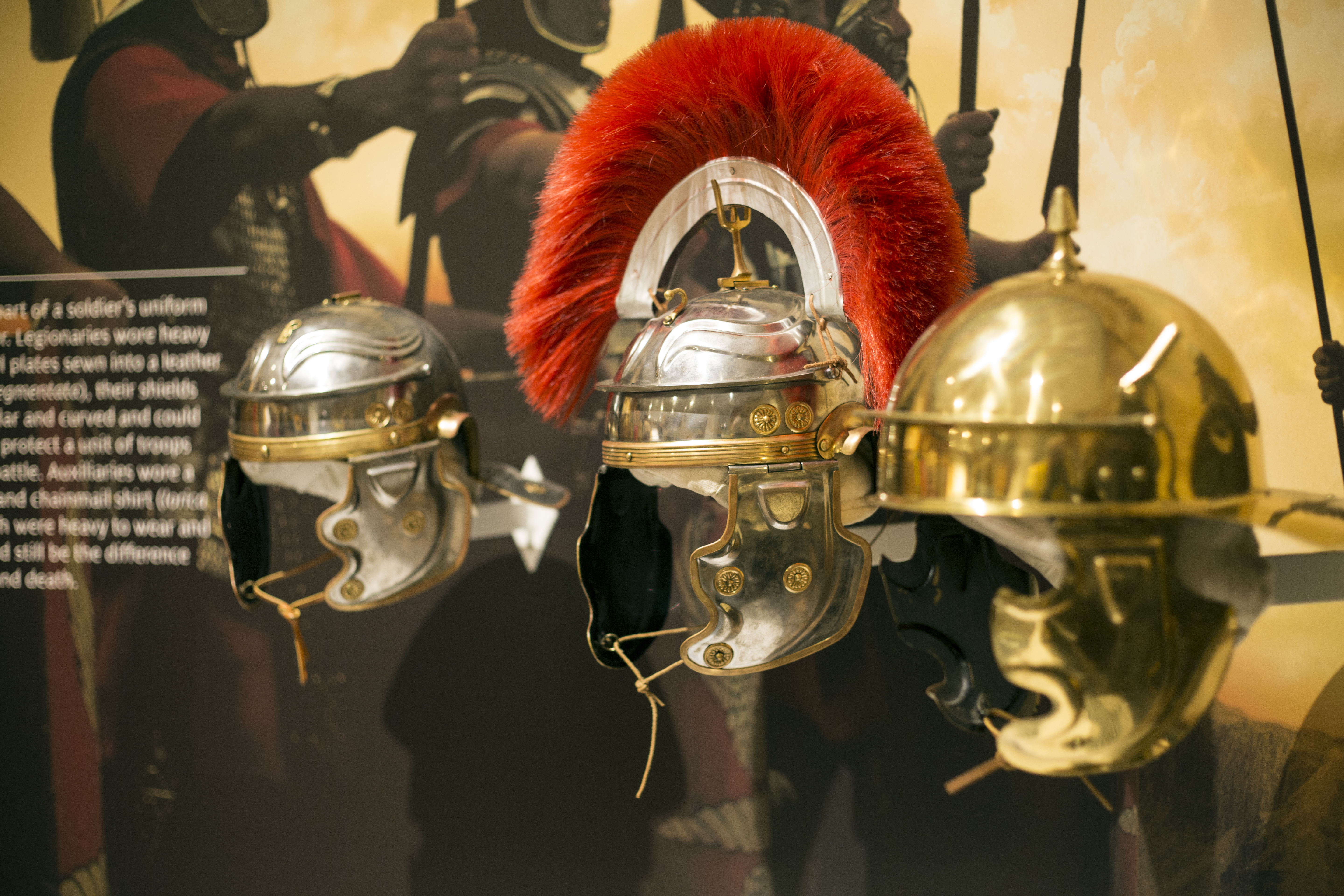 Vindolanda (Chesterholm) Roman forts, civil settlement and cemeteries, adjacent length of the Stanegate Roman road and two miles Wikidata has entry Q17668738 with data related to this item.